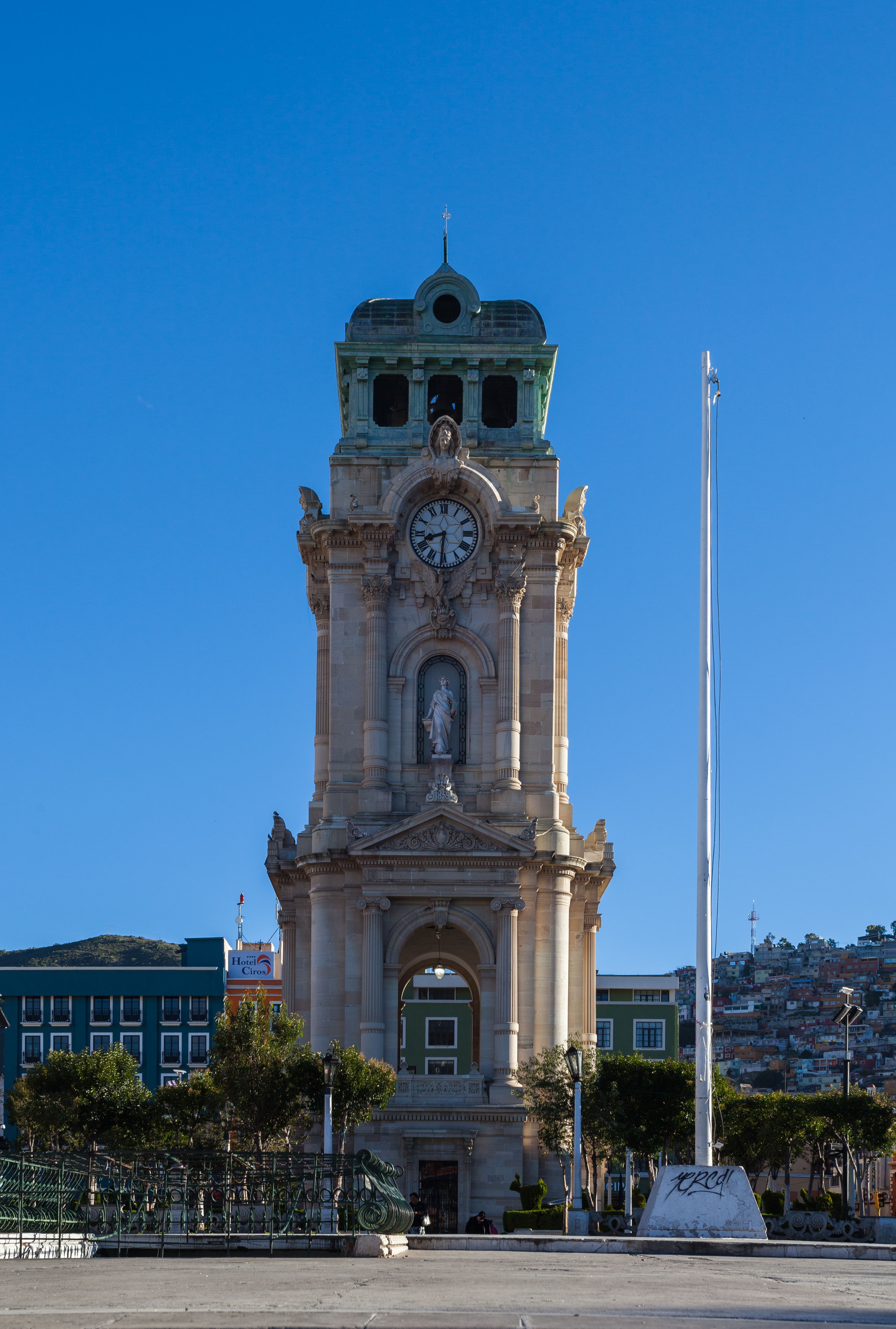 Monumental Clock, Pachuca, Hidalgo, Mexico